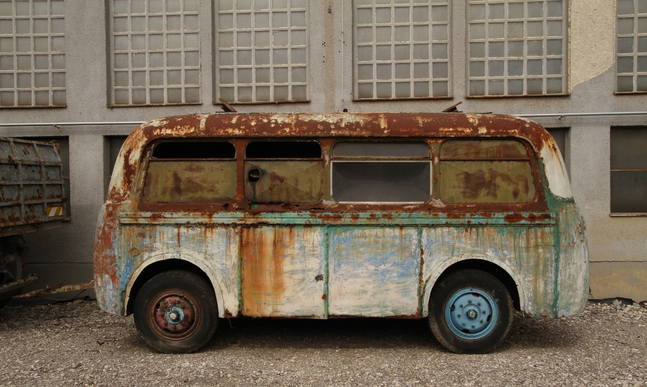 Karosa B40 bus trailer at the Trenčin Electric Railway depôt in Trenčianska Teplá, Slovakia